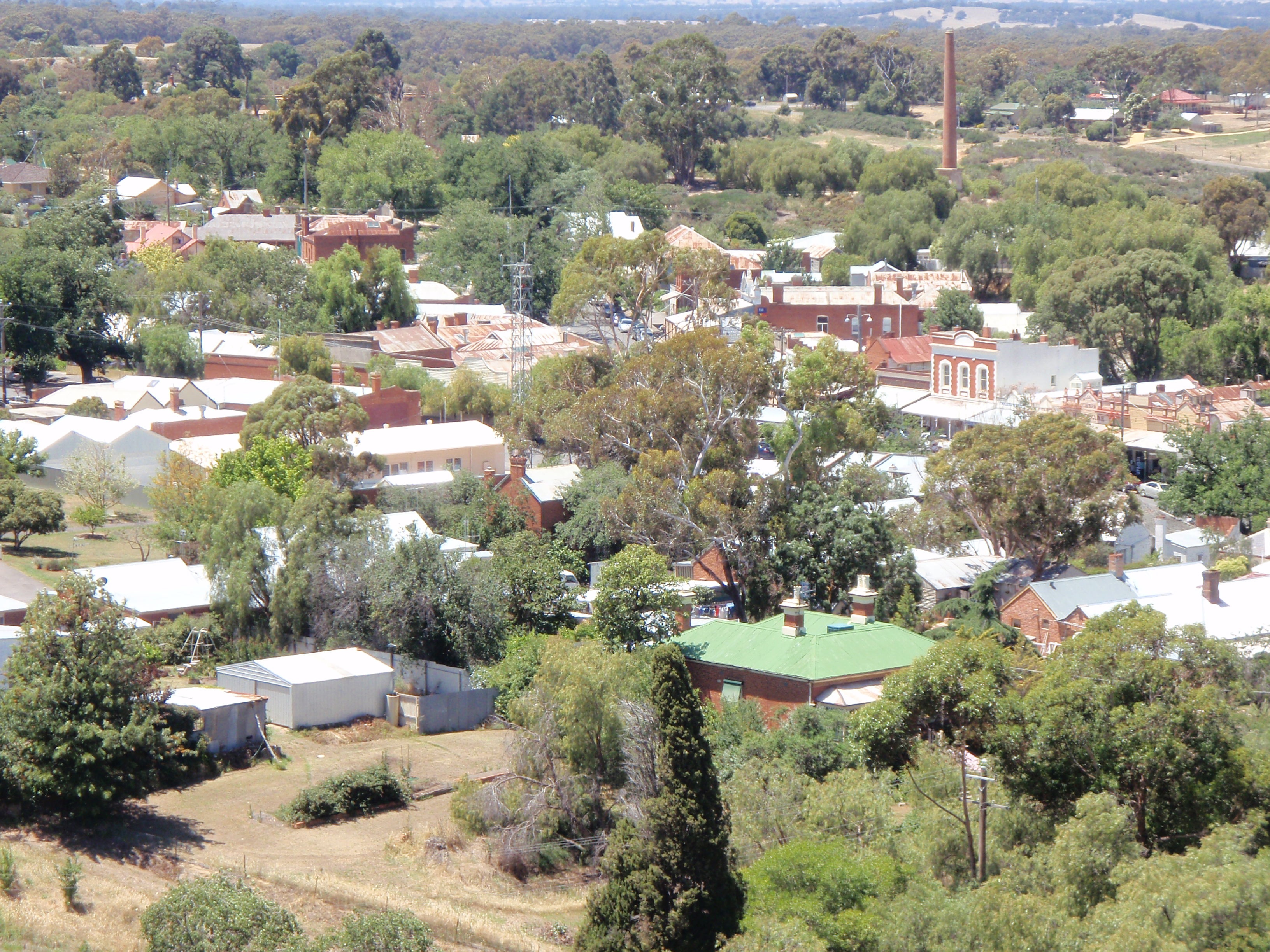 The view from the hill just to the south of Maldon, Victoria.